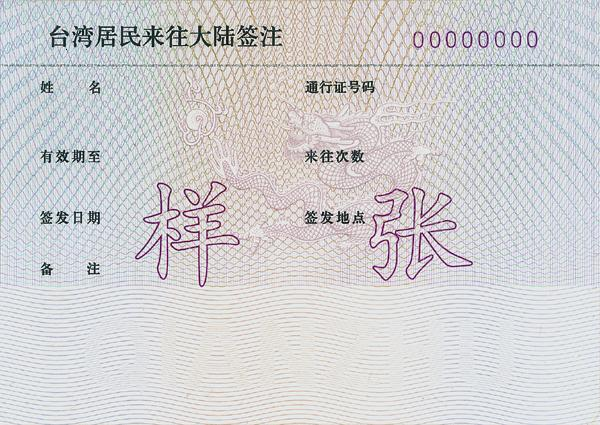 Exit endorsement of the Taiwan Compatriot Permit sample (abolished)